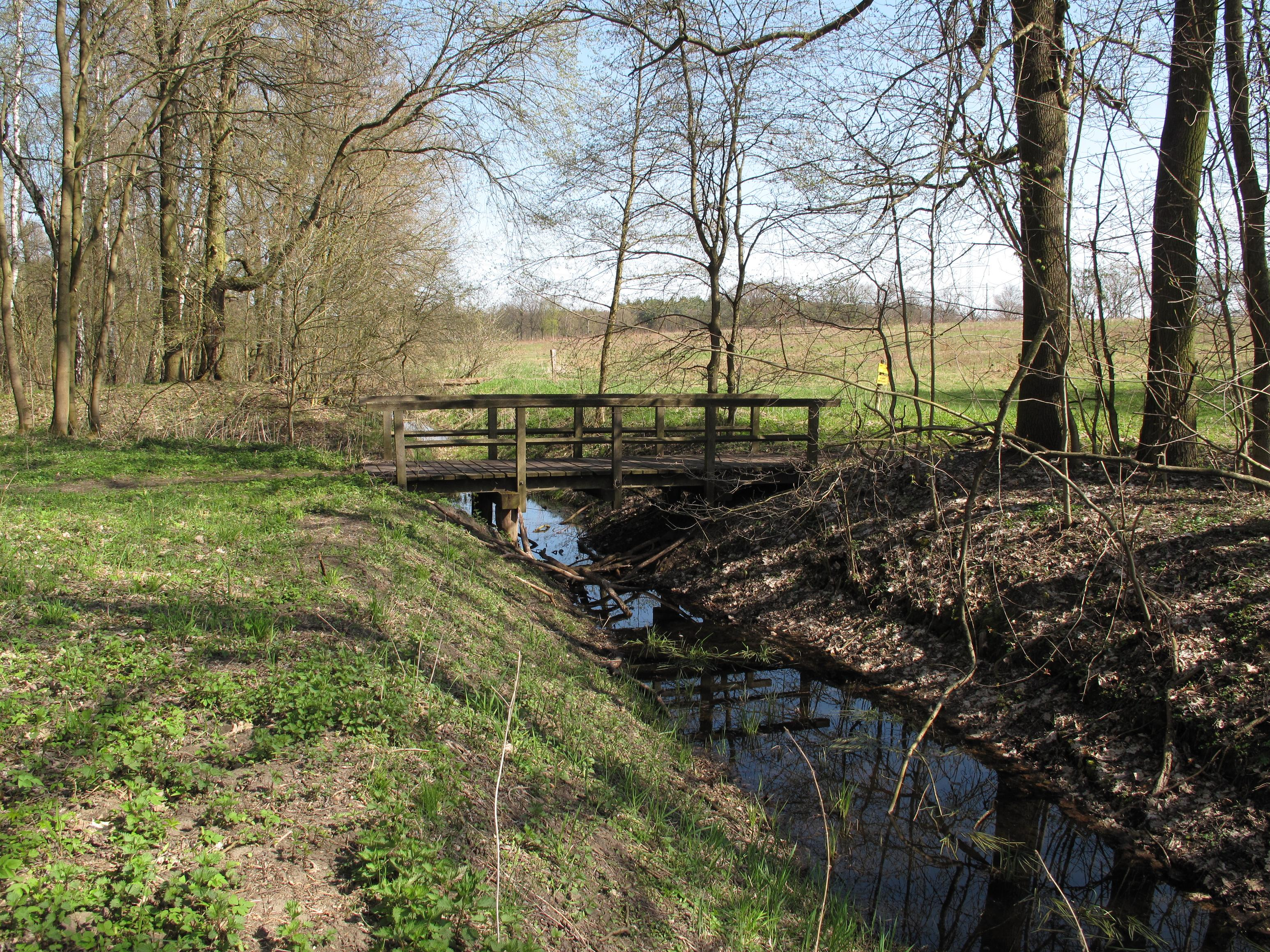 Mühlenfließ (german for: millsbrook) in Stücken. Stücken is a part of Michendorf in the district Potsdam-Mittelmark, state Brandenburg, Germany. The village is situated in the Nuthe-Nieplitz Nature Park.